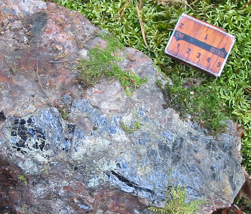 Black and shiny part of this rock is biotite.